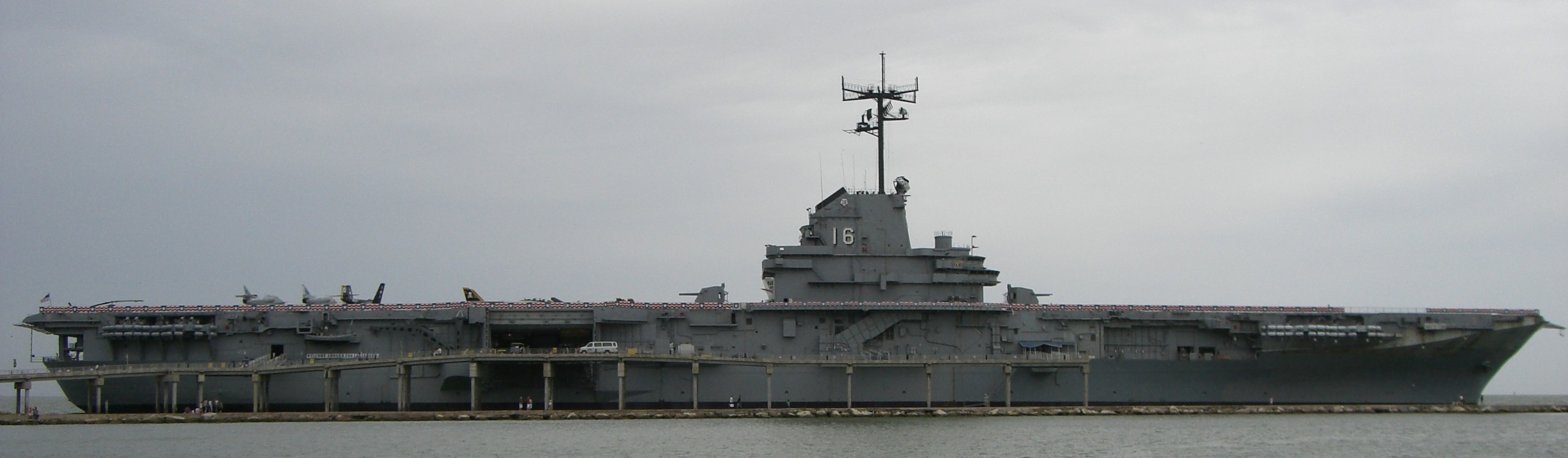 Photo of the USS Lexington (CV-16), seen here as a museum ship, docked at Corpus Christi, Texas.